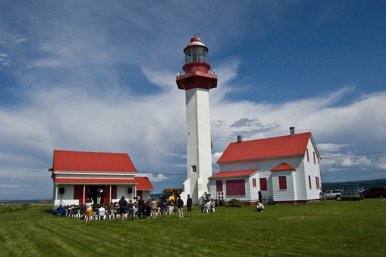 Metis Lighthouse, QC, CA